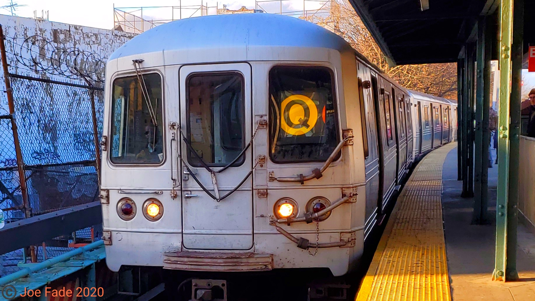 Coney Island bound R46 Q train arrives at Kings Highway